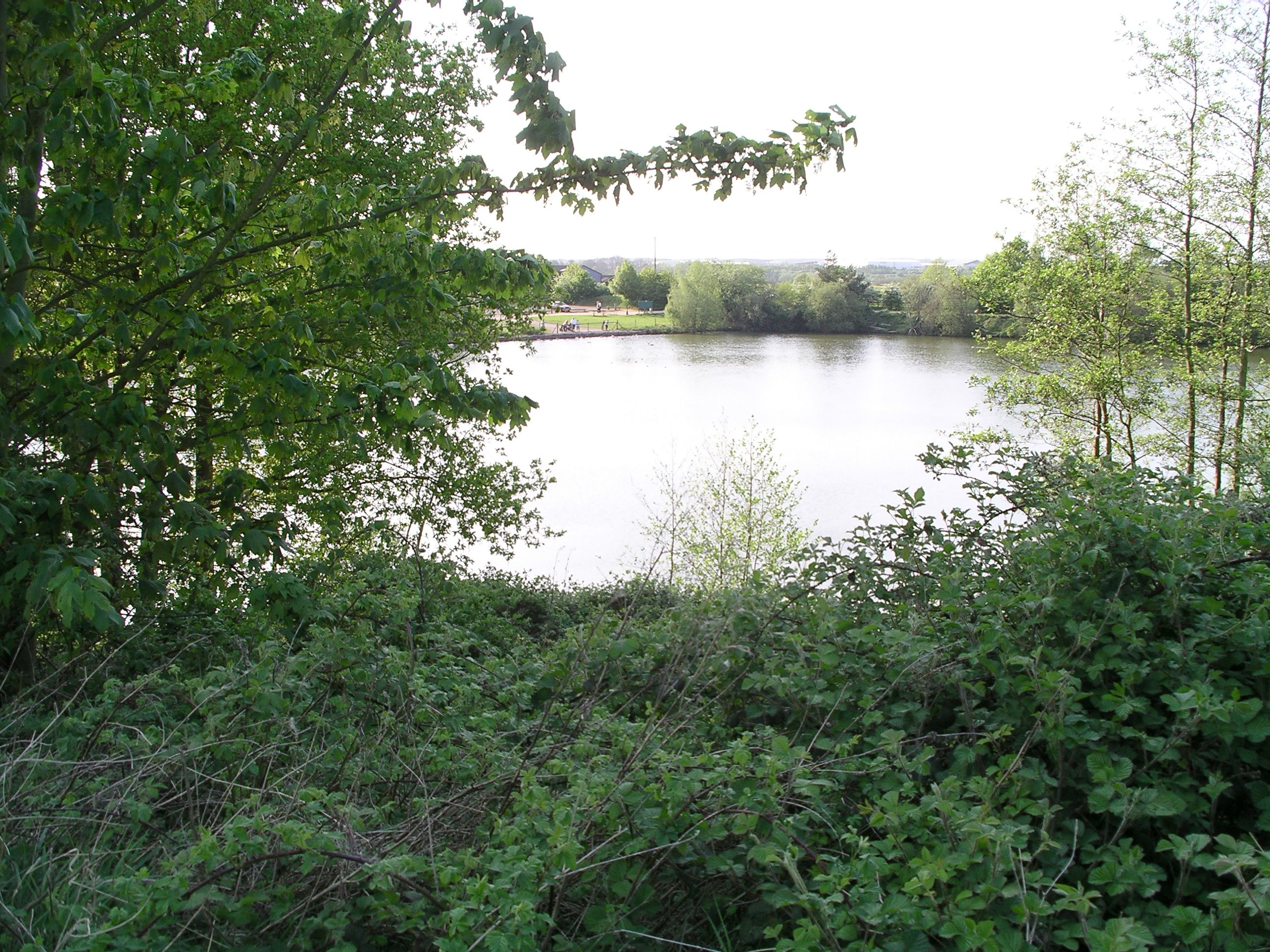 Ryton Pool in Warwickshire, England. Photo taken from the top of a high bank on one side of the pool.